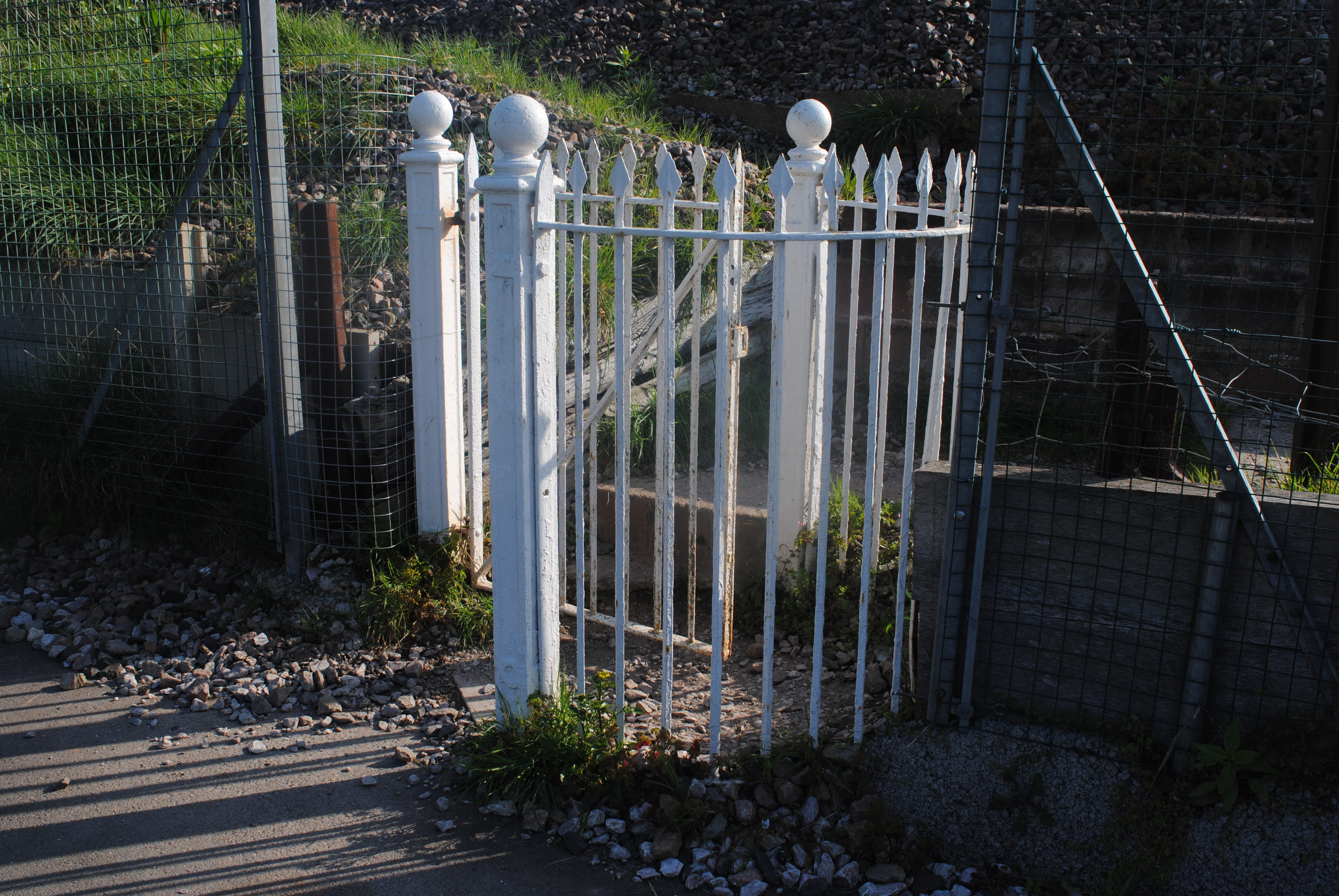 Cockwood Steps, Devon, England